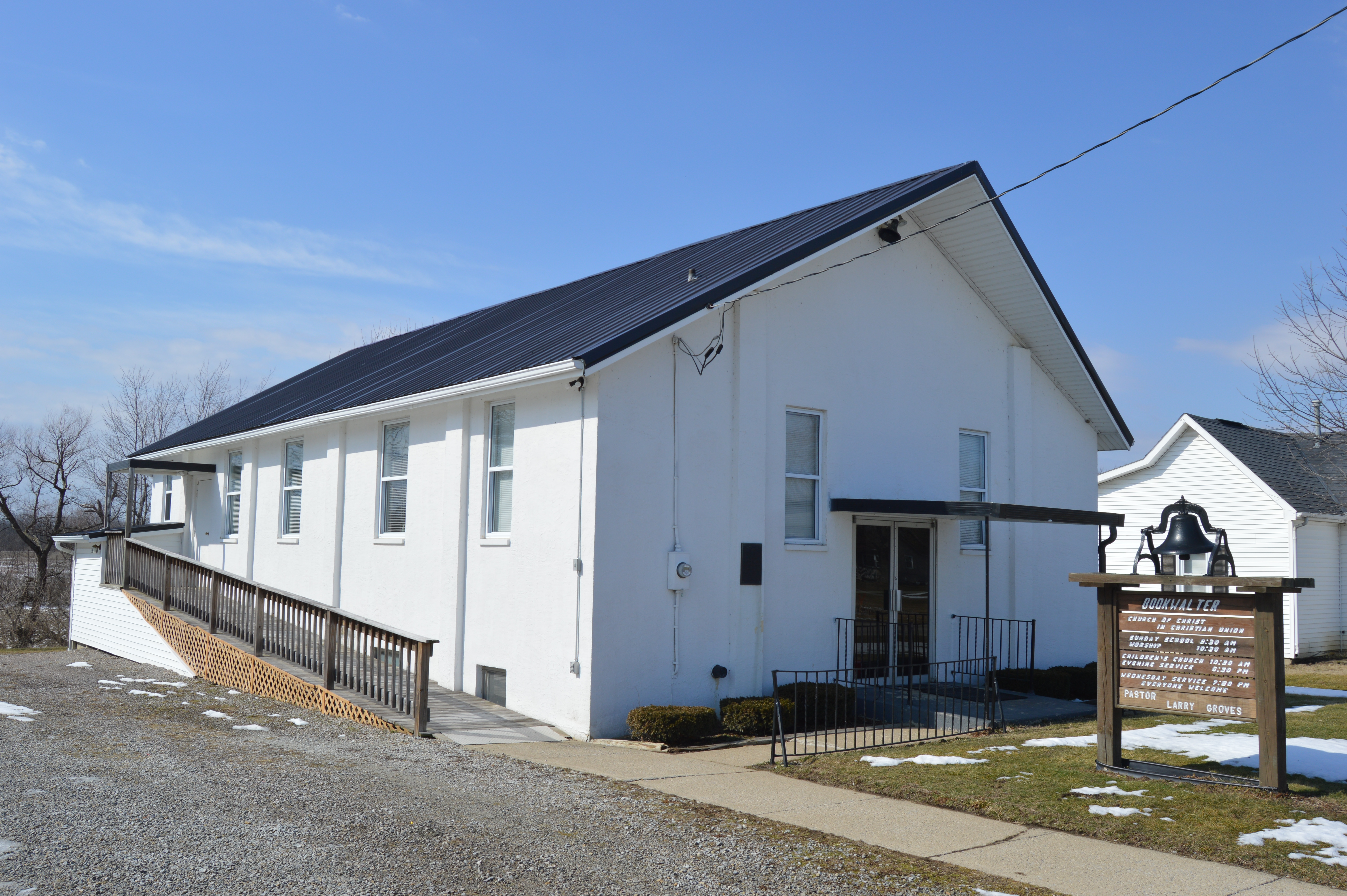 Front of the Bookwalter Church of Christ in Christian Union, located at 13723 Reid Road at Bookwalter in Paint Township, Fayette County, Ohio, United States.